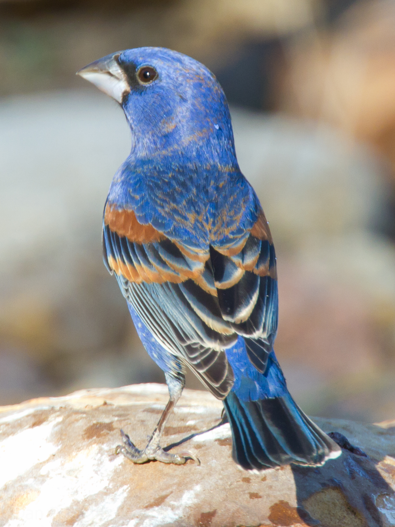 Blue Grosbeak Passerina caerulea, Freeport, Texas